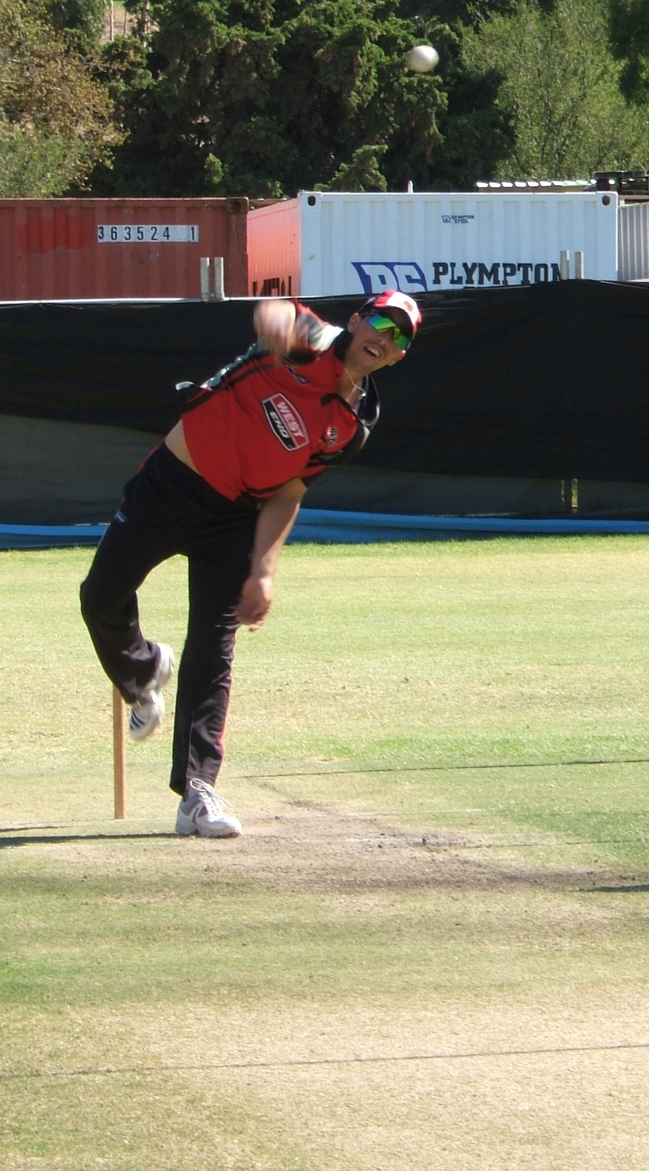 Named person engaging in named action at Adelaide Oval nets/training ground